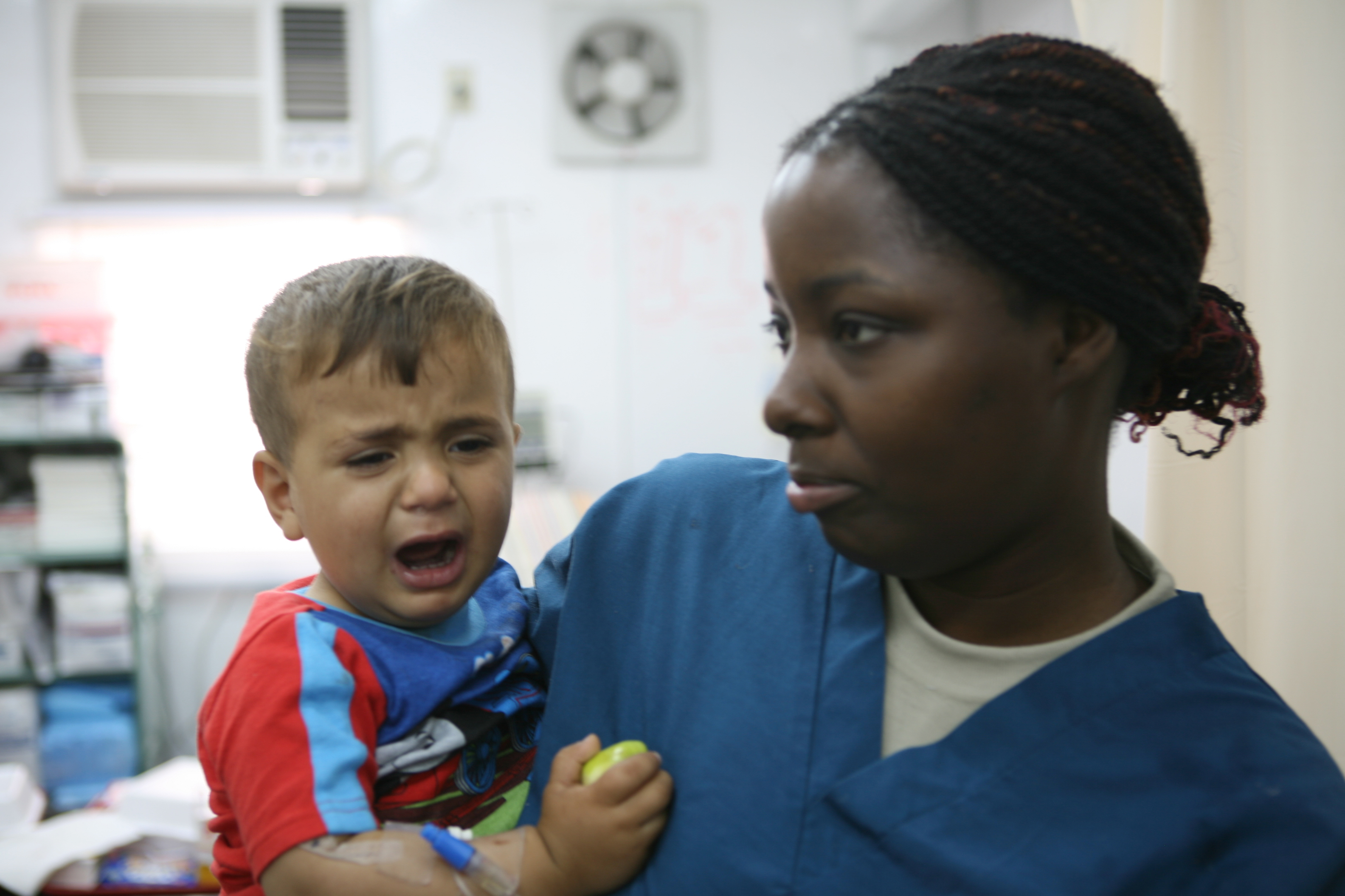 AL ASAD, Iraq- Spc. Jamila Lewis, a licensed practical nurse with the 399th Combat Service Support Hospital, holds Ahmed May 2. Ahmed is recovering from shrapnel wounds to his abdomen received during a terrorist attack on April 25.